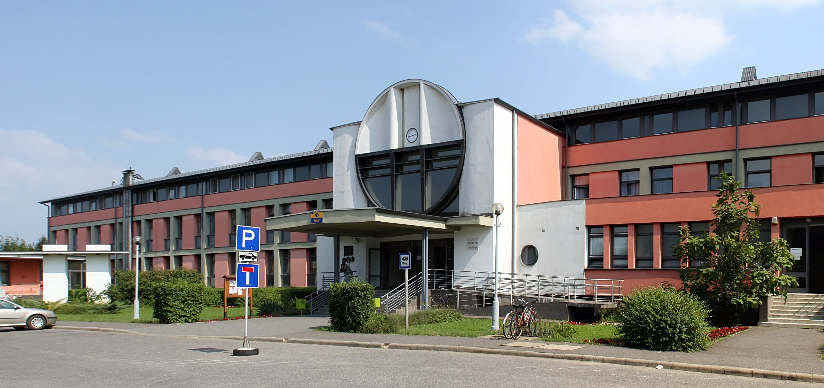 Train station of Záhony, Hungary